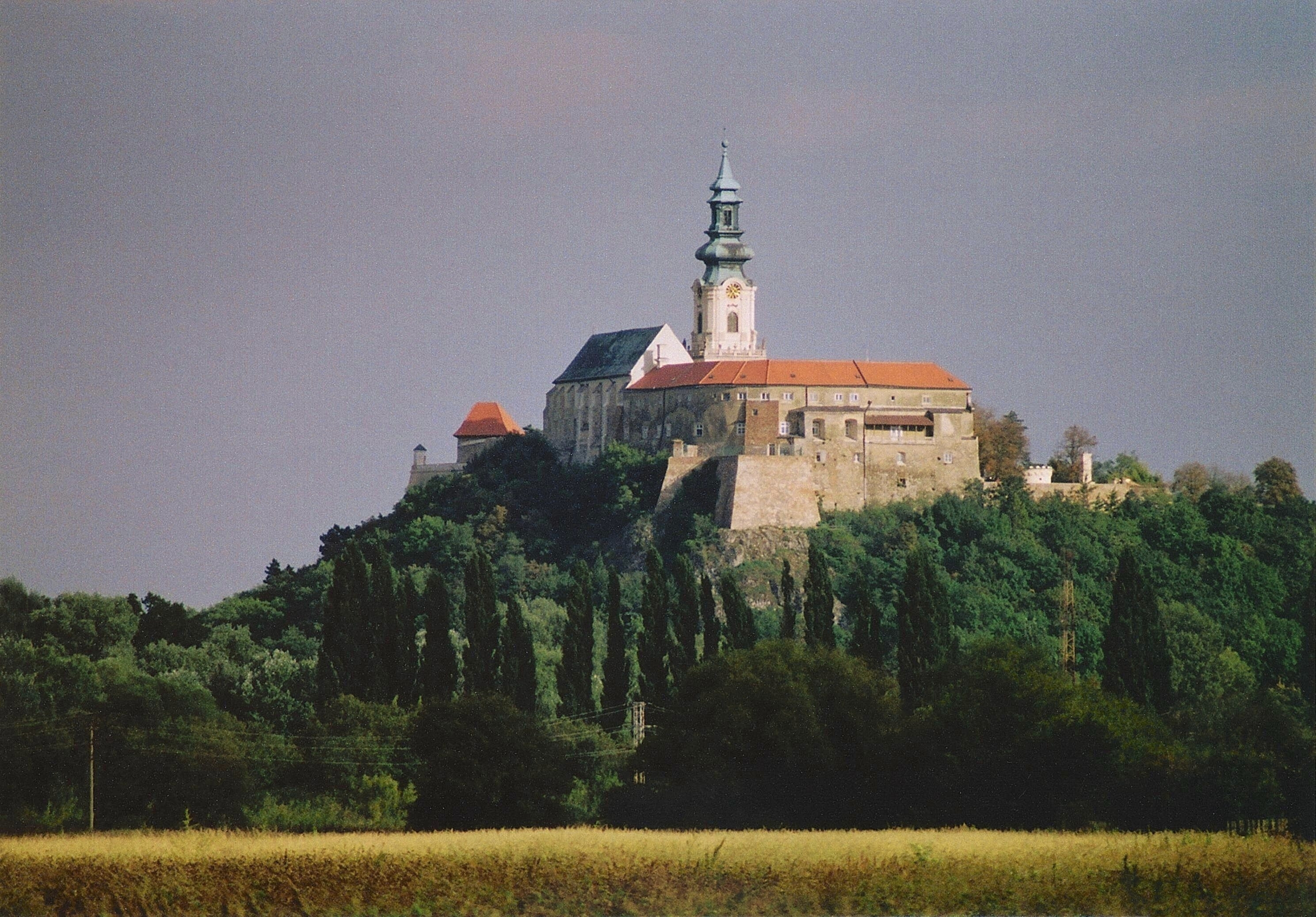 Nitra Castle, Slovakia, general view.